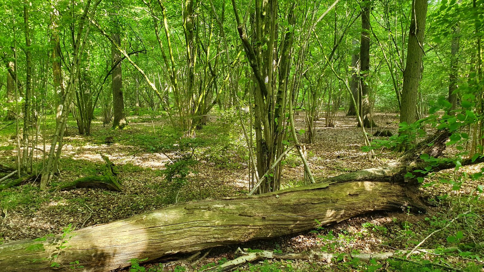 Naturschutzgebiet Glüsinger Bruch und Osterbruch